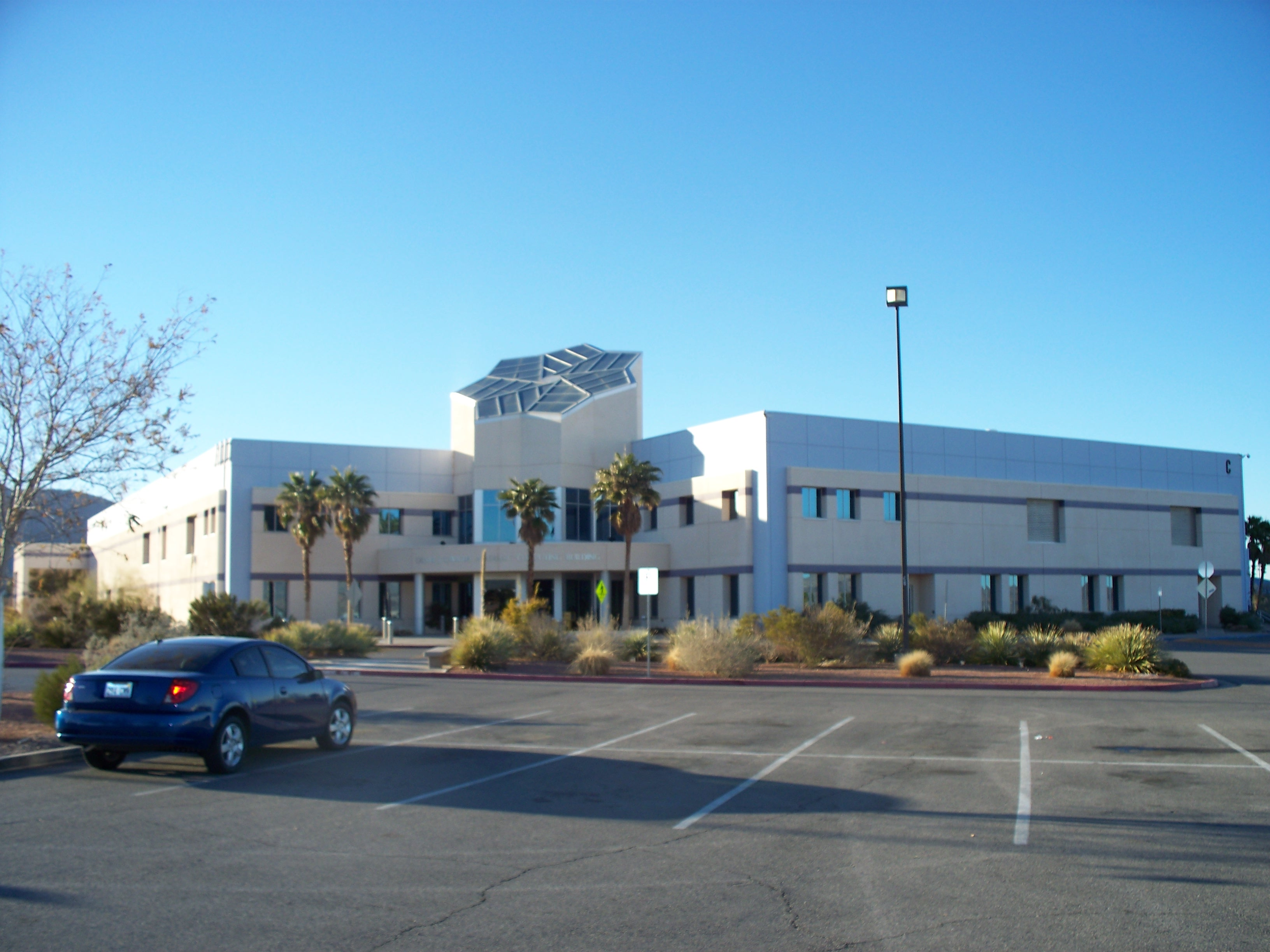 Henderson campus of the College of Southern Nevada